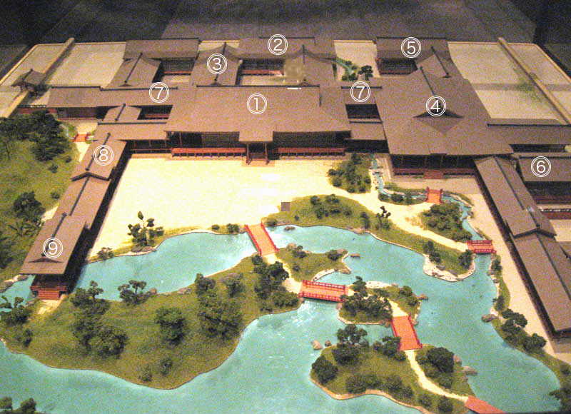 Miniature Model of Higashi-Sanjo Dono.